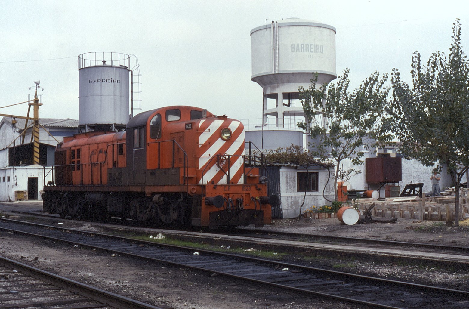 Between duties at Barreiro on 11 November 1993 is ALCO built loco no. 1523